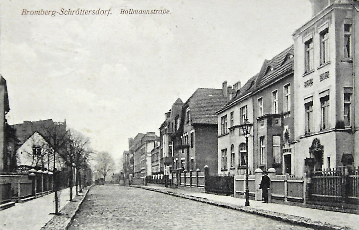 Street view ca 1914